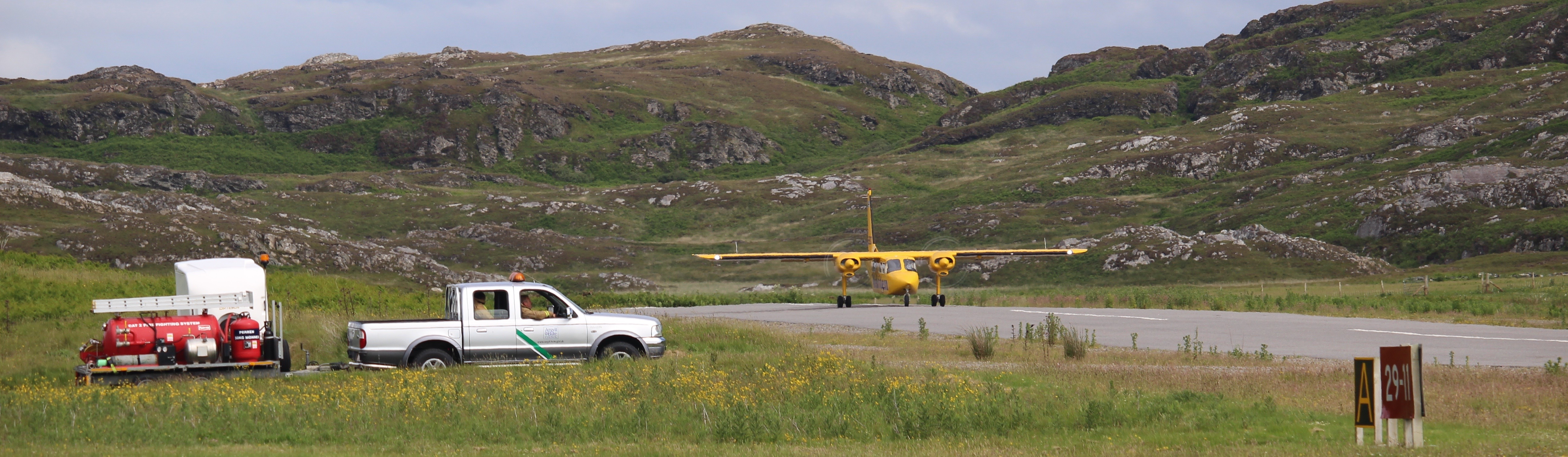 Hebridean Air Services Britten-Norman Islander lined up for take off at Colonsay Airport